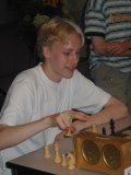 Chess player Jan Smeets.